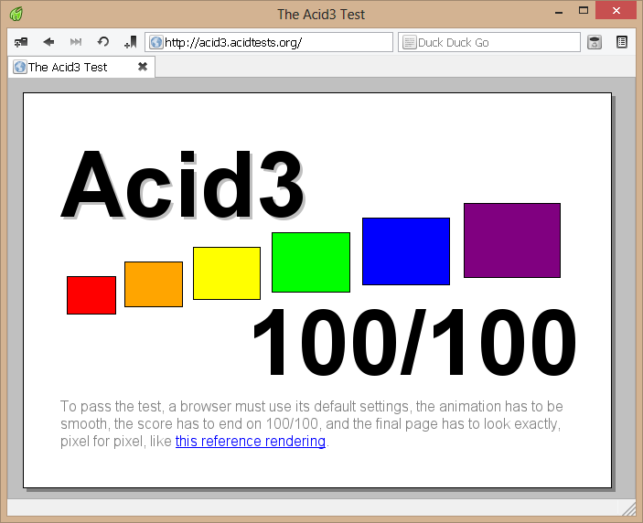 Midori 0.5.0 passing the Acid3 test.